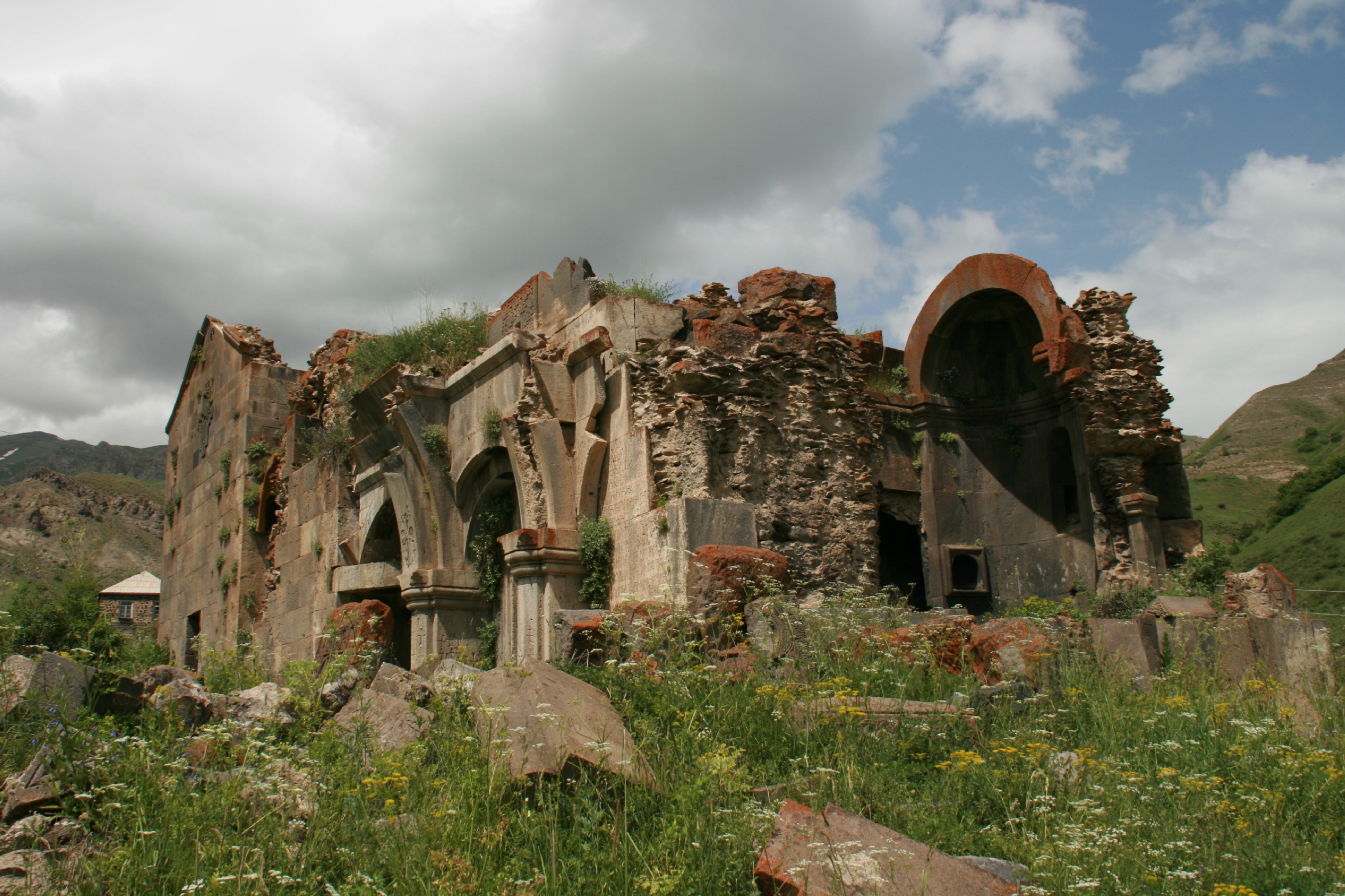 ՎԱՆԱԿԱՆ ՀԱՄԱԼԻՐ. ԱՐԱՏԵՍԻ ՎԱՆՔ 29.1/1